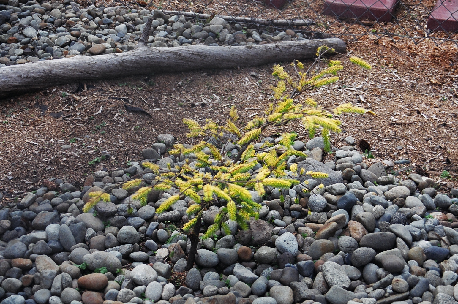 Young golden Picea sitchensis grafted from the Kiidk'yaas tree.